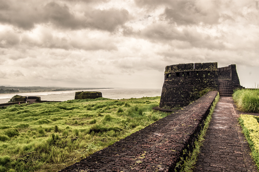 Bekal fort During monsoon